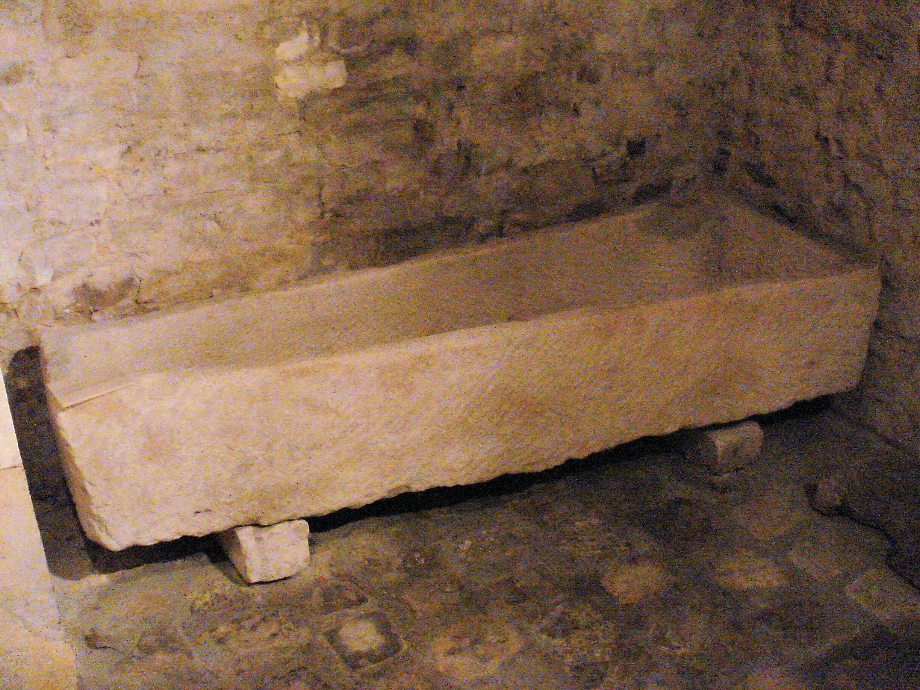 Merovingian_sarcophagus_from_Aytre_cemetery